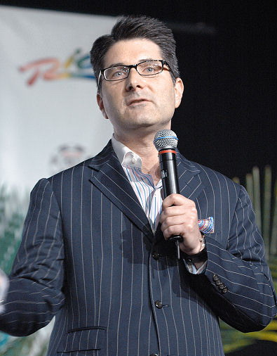 World Series of Poker Commissioner Jeffrey Pollack in 2006